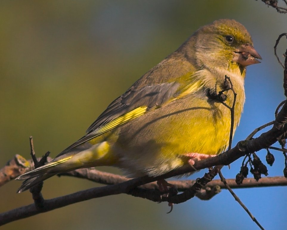 European Greenfinch in harsh autumn morning light, eating the last berries of autumn.